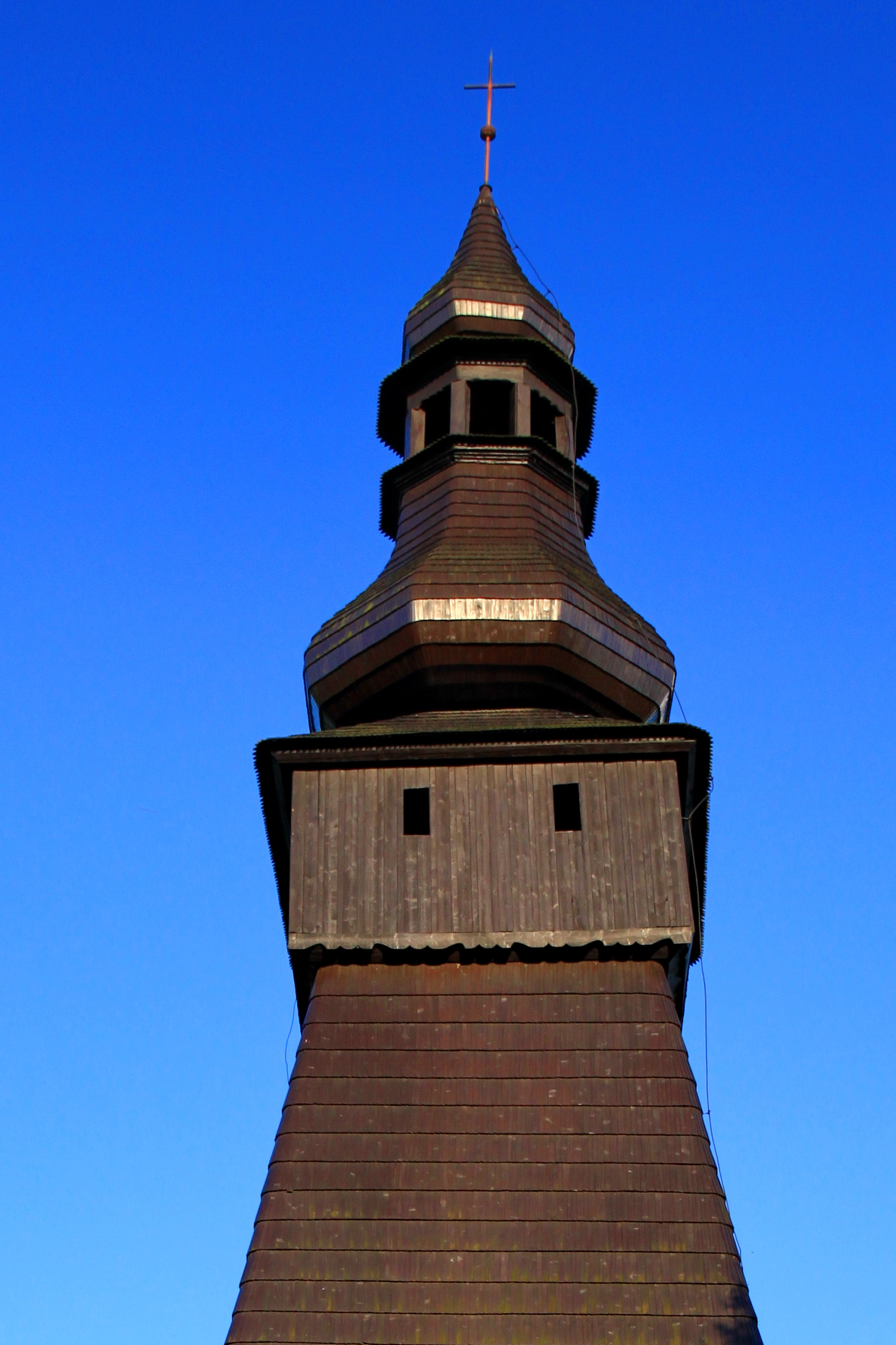 Kończyce Wielkie, Saint Michael Archangel parish church, build in 1771